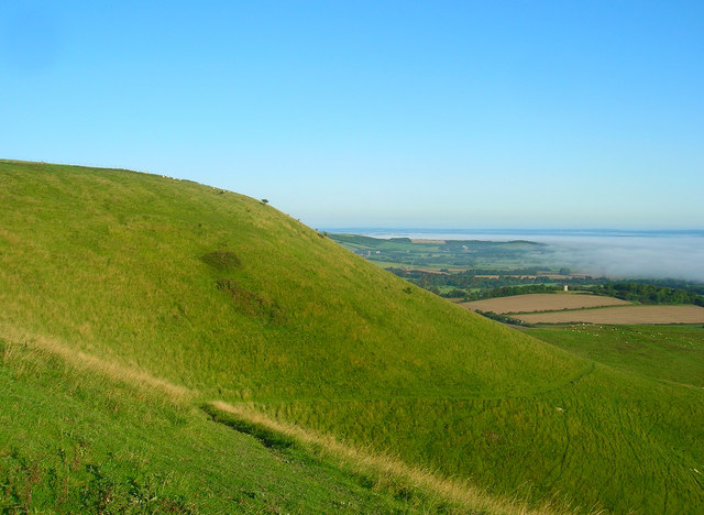 Firle Beacon The distinctive peak along this range of the Downs. Much of the north escarpment is open access land and a track can just be made out running around the lower part of the hill from its start point in front of the photographer. Firle Tower can be seen in the distance.